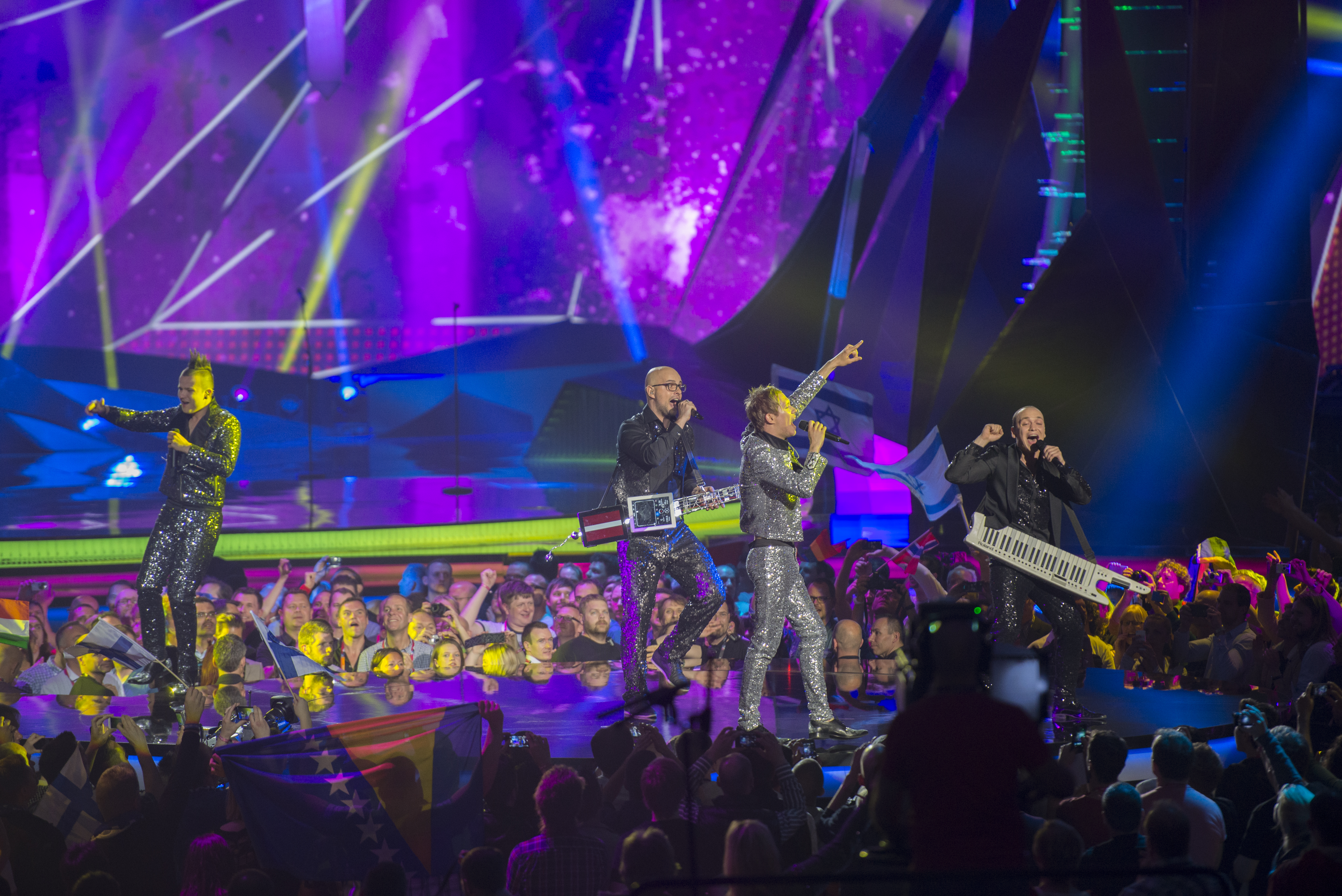 PeR representing Latvia with the song "Here We Go" during the second dress rehearsal of the second semi final of the Eurovision Song Contest 2013 in Malmö. (Help translate this text)